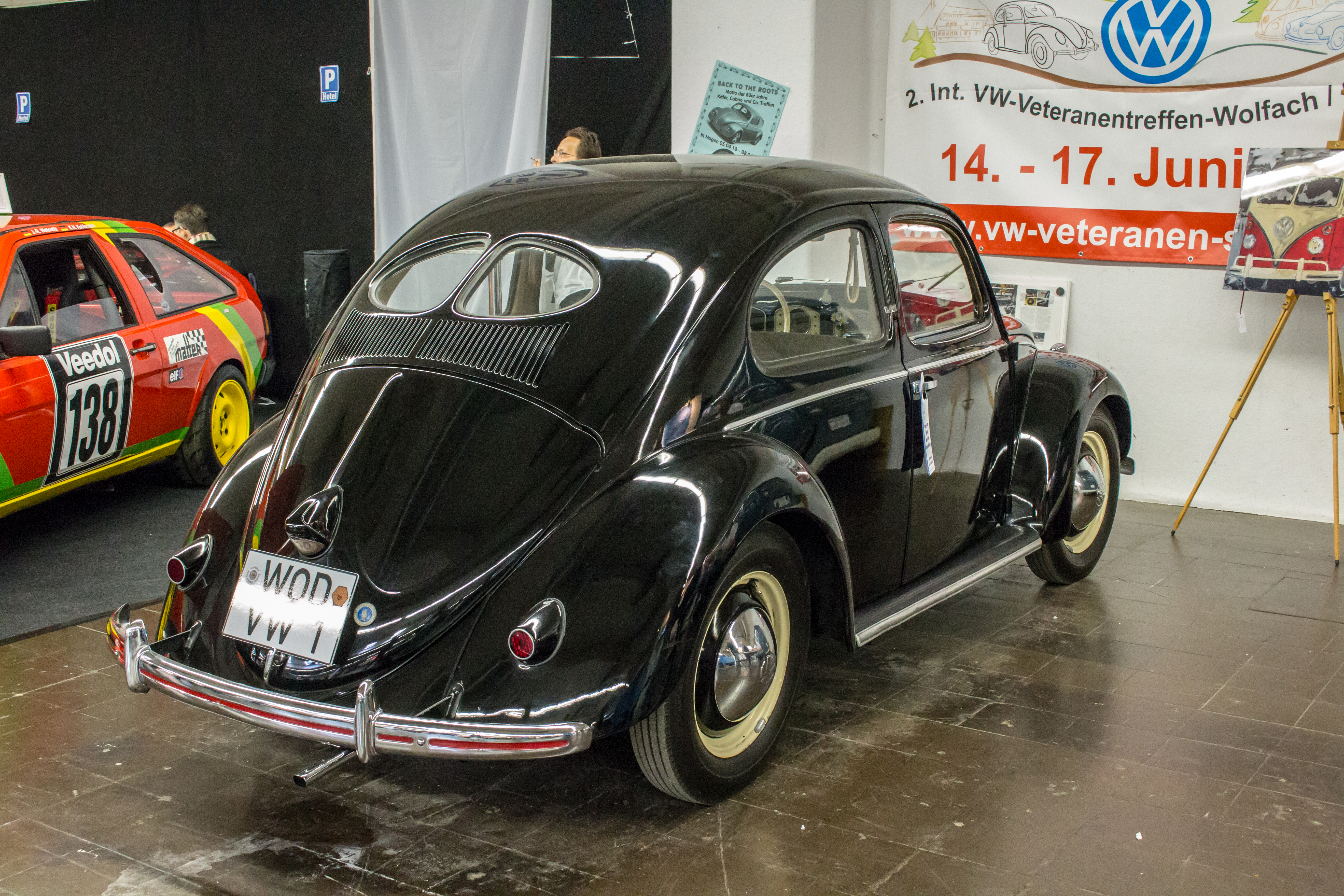 Techno-Classica 2018, Essen